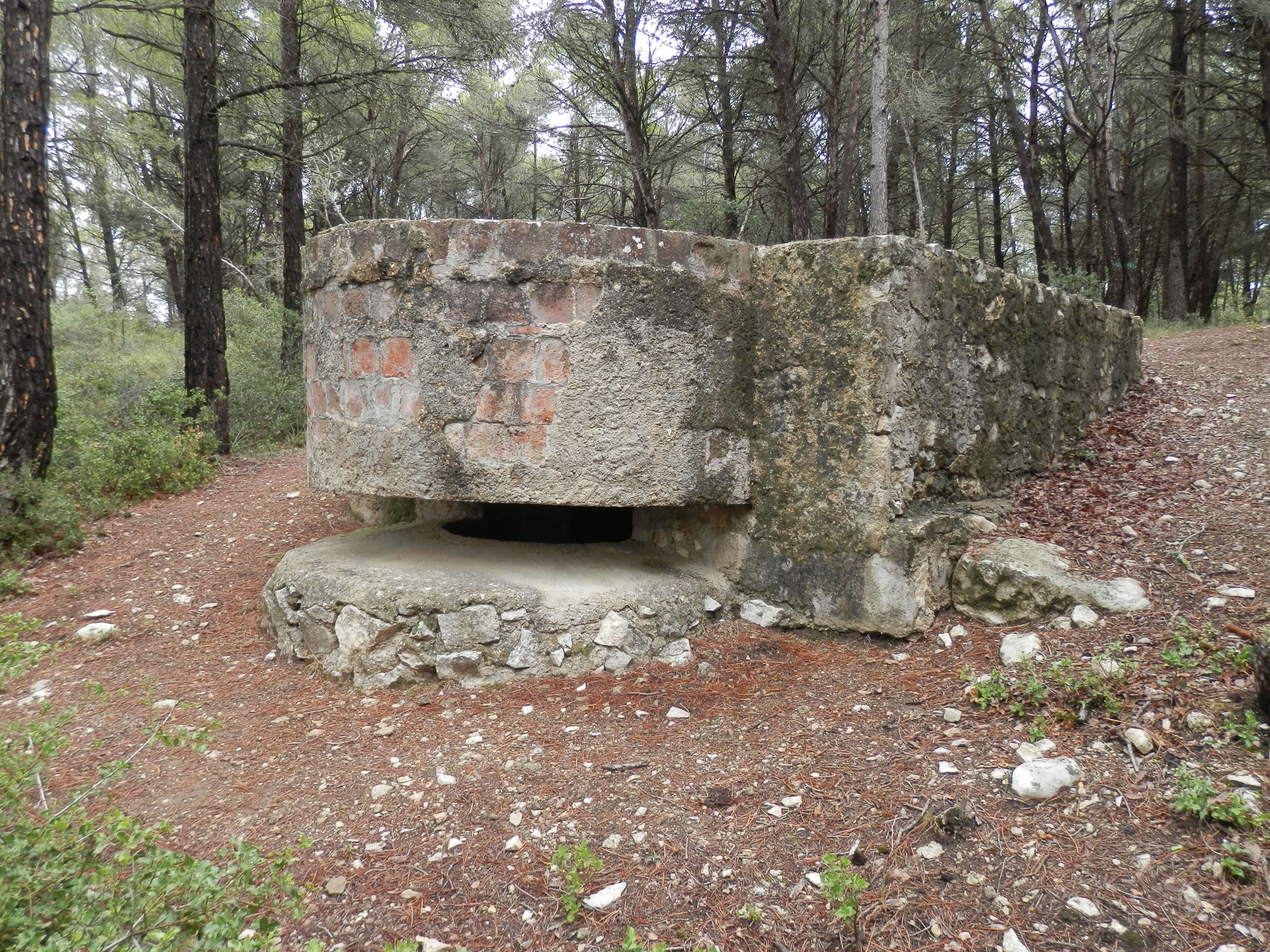 Picture of the artillery observation post on the Manantial hill.